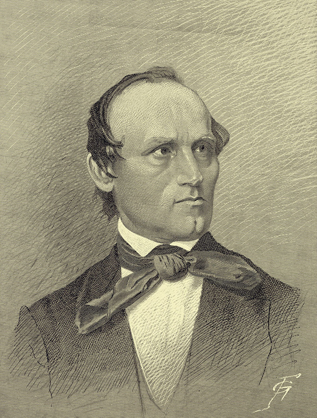 Portrait of Friedrich Kiel, composer (1821-1885).